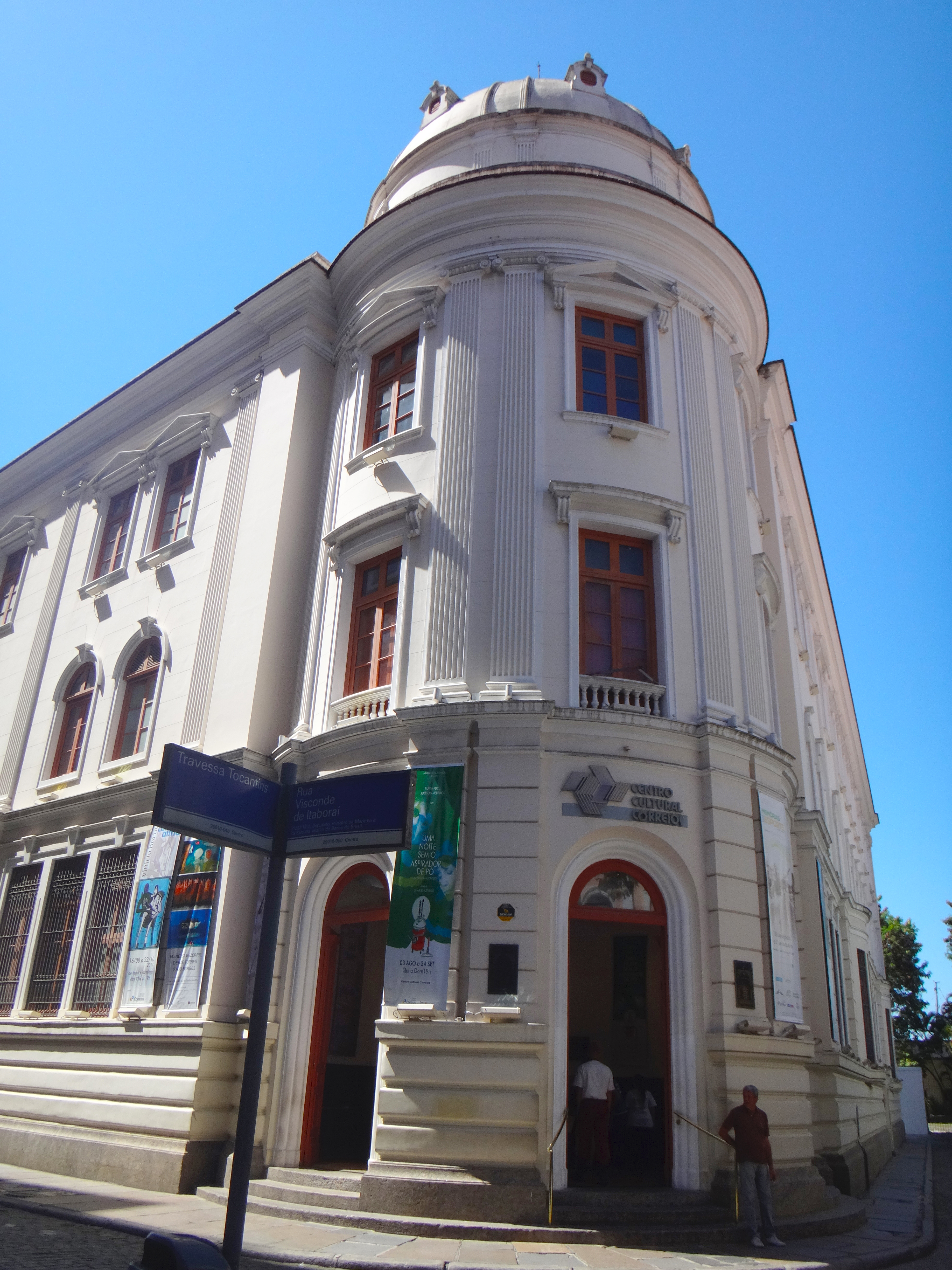 Building of the Brazilian Post Cultural Centre (Centro Cultural dos Correios) in Rio de Janeiro, Brazil